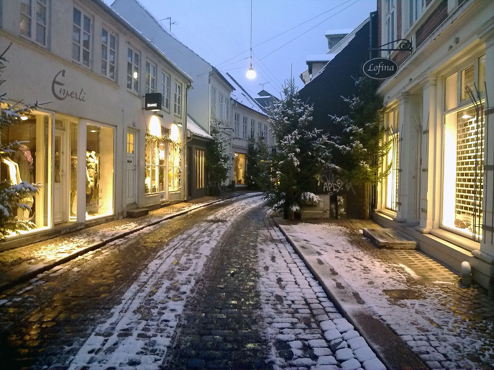 Volden, night, snow